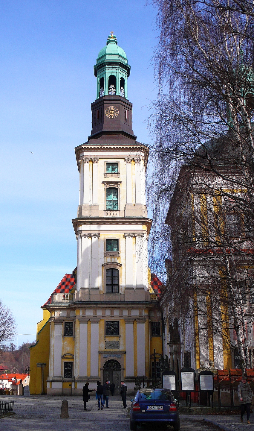 Basilica of Saint Hedwig in Trzebnica